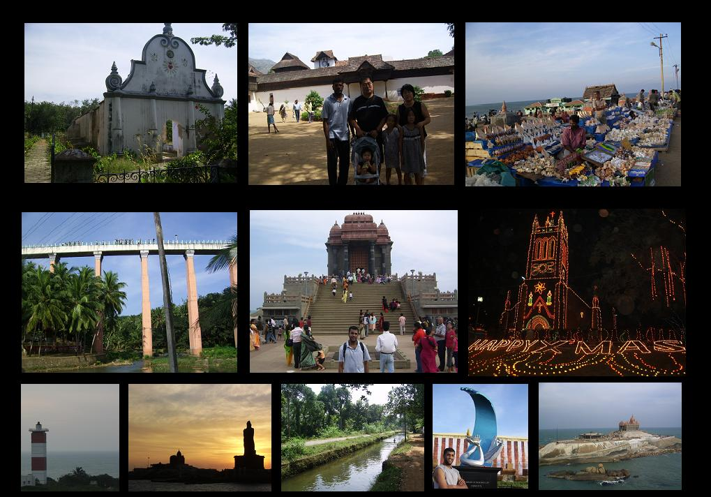 My Own collection - all taken during the trip to Kanyakumari, December 2006